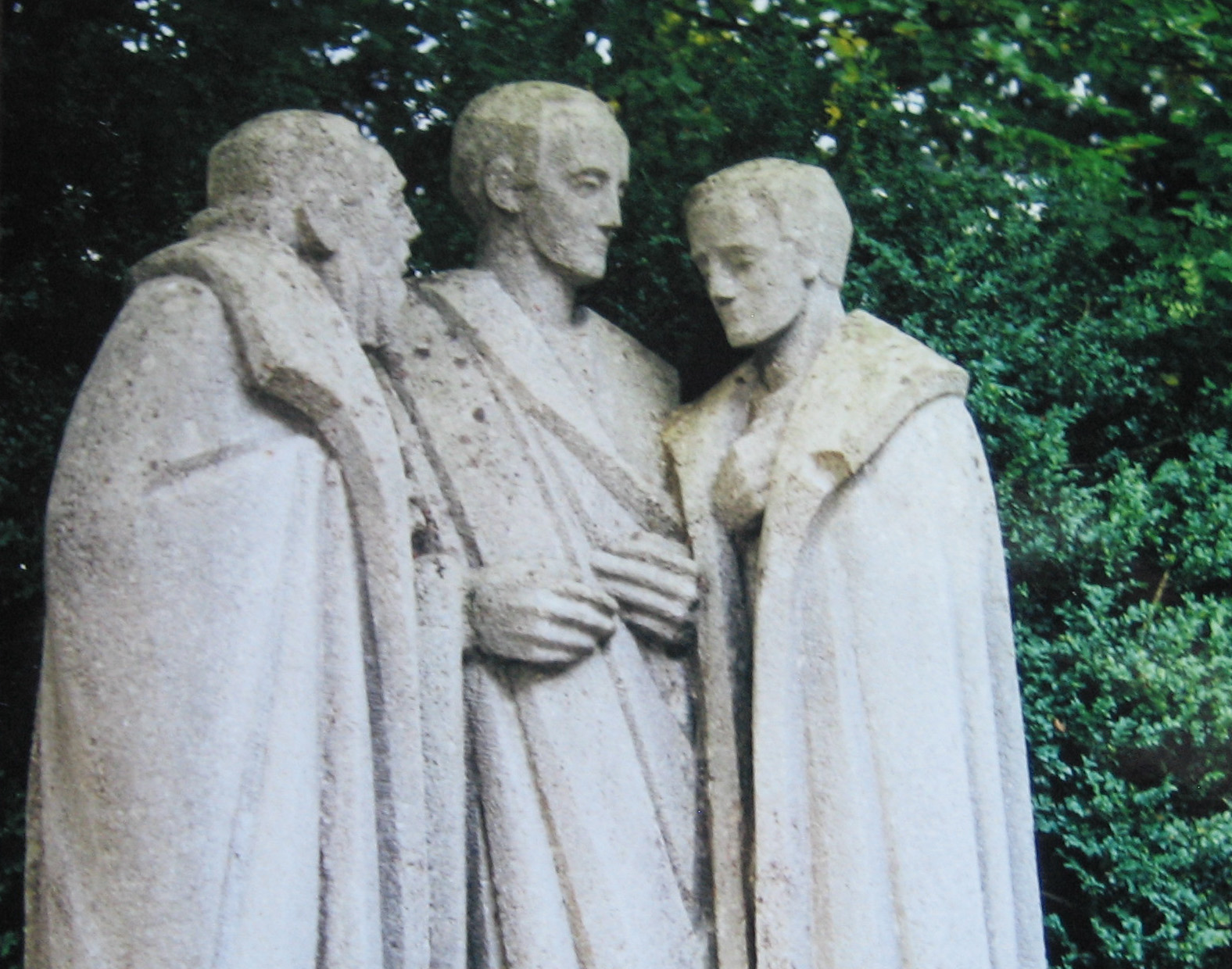 Albert Oesch (Swiss sculptor): Jesus with disciples, cemetery in St. Gallen, Switzerland